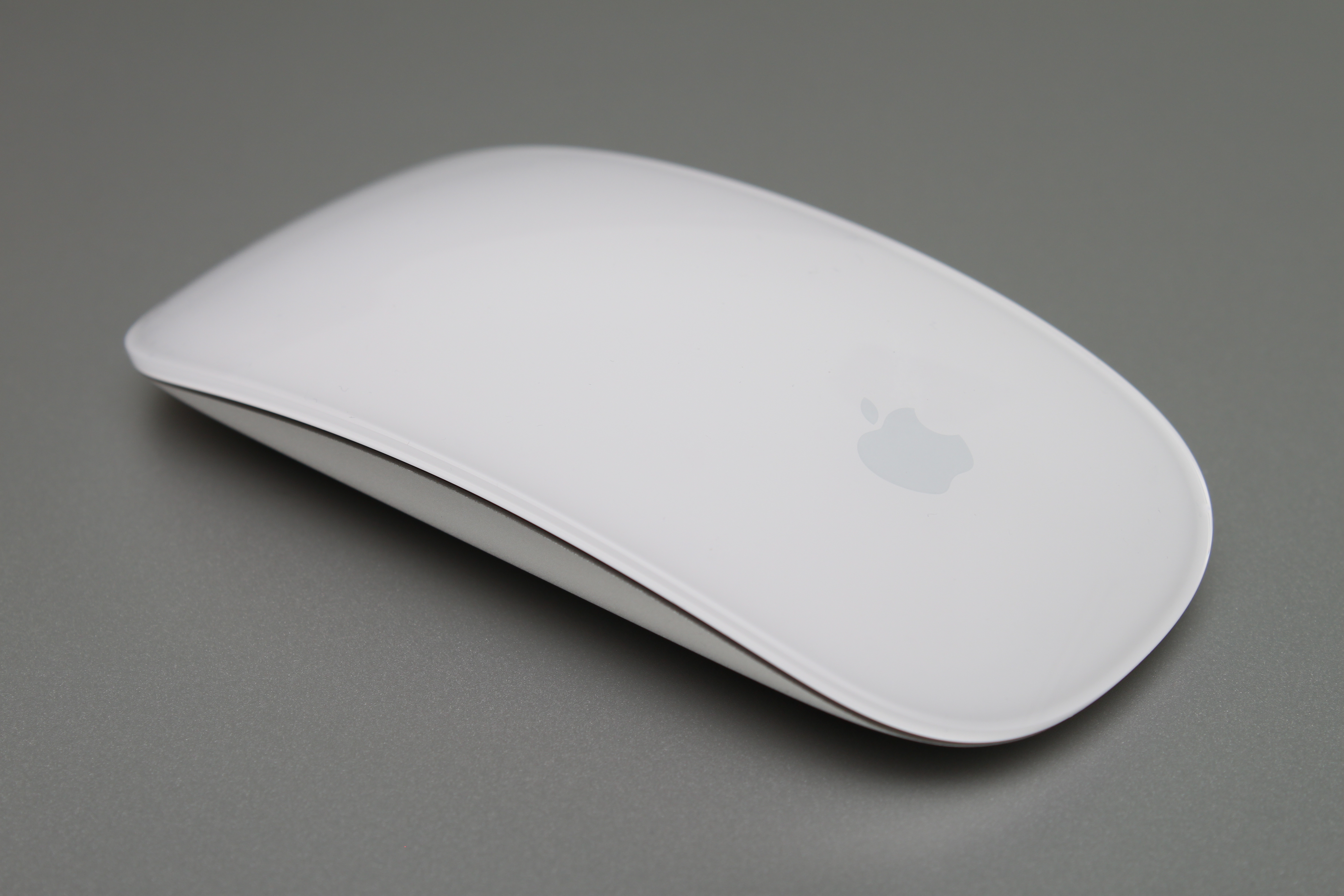 Magic Mouse on MacBook Pro. Canon Rebel T1i with Speedlite 580EX II.